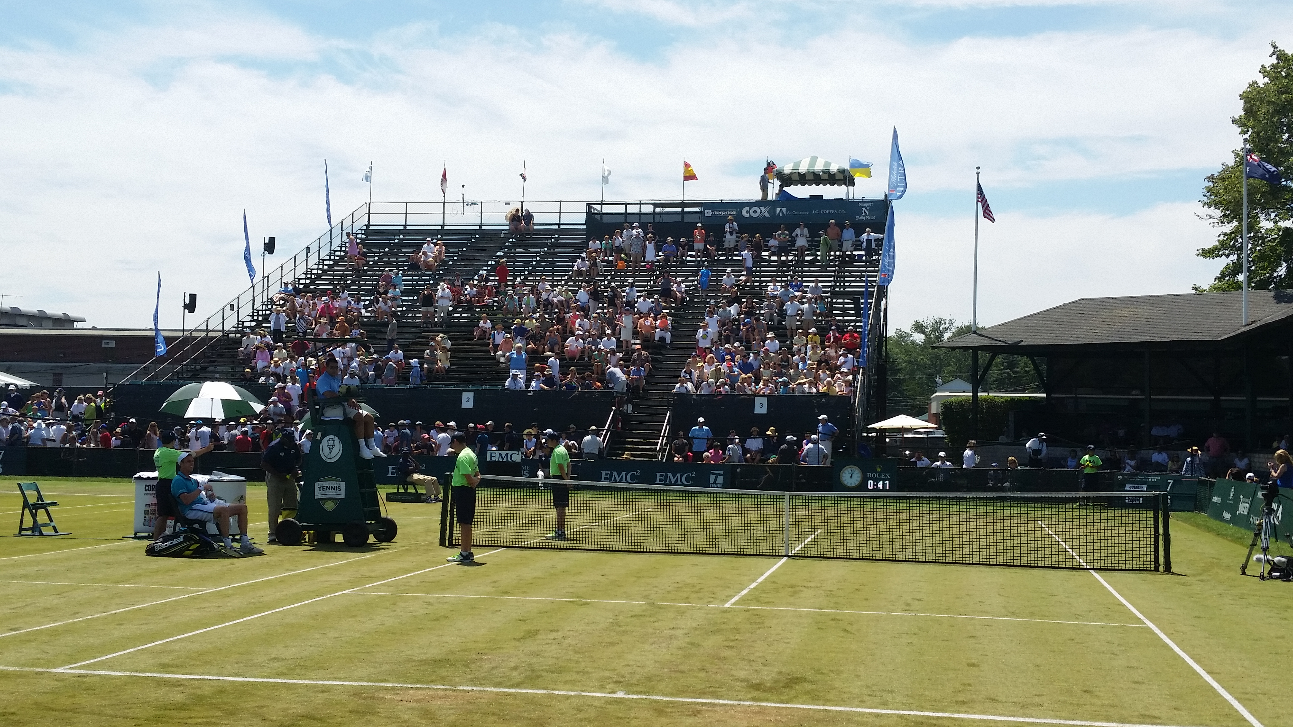 Hall of Fame Tennis Championships center court